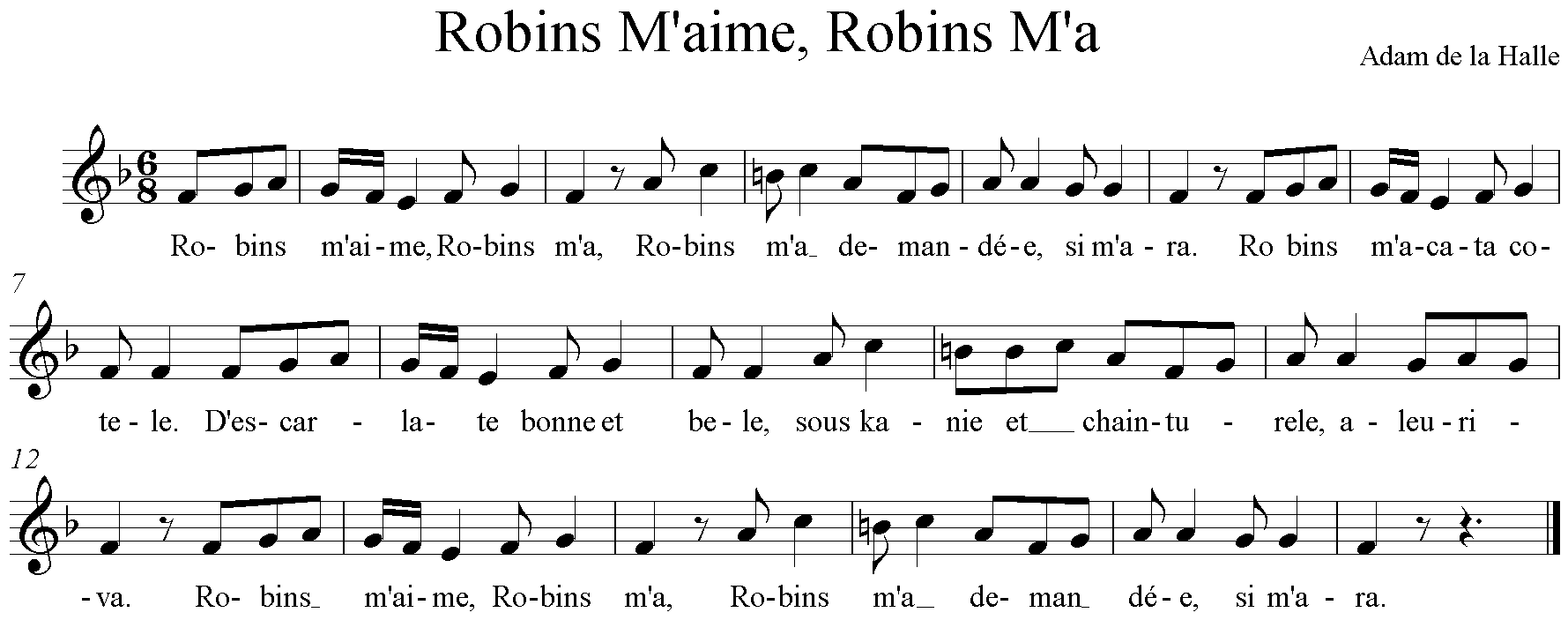 A rondeau from Robin et Marion by Adam de la Halle. Made using Sibelius 5 by Popiloll. The music quoted is in the public domain, and the image is hereby released into the public domain by Popiloll.